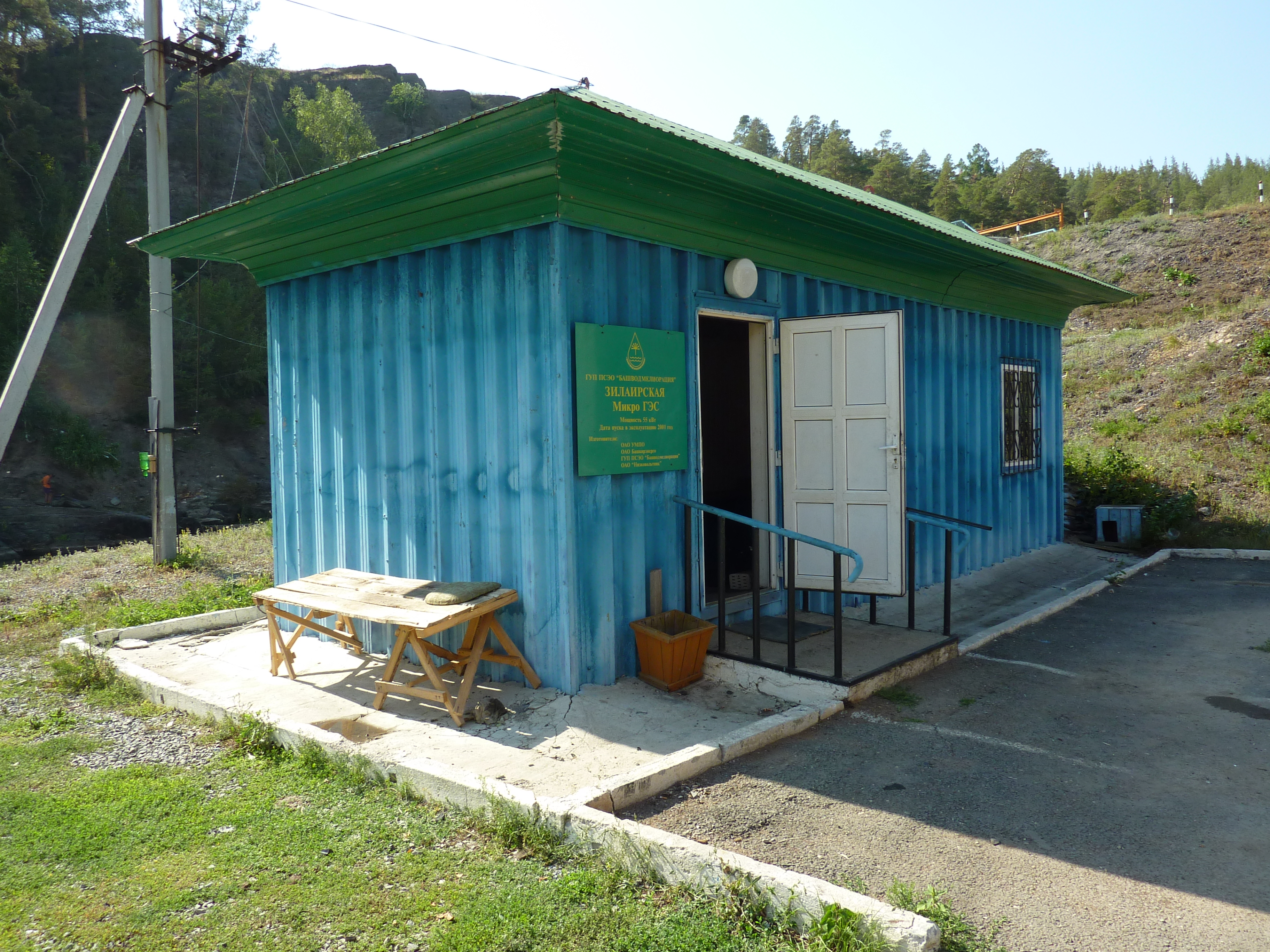 Zilairs MicroHE.